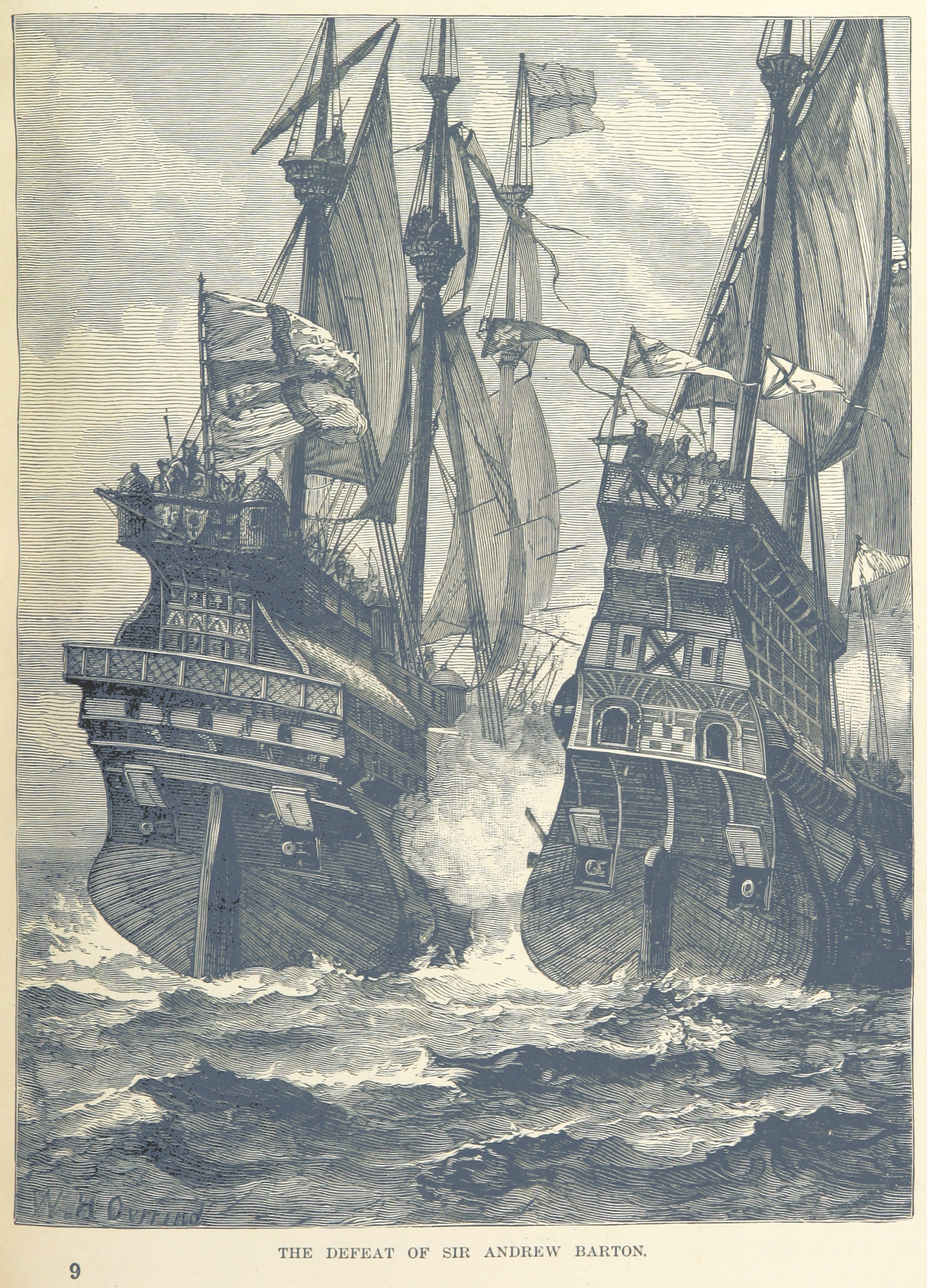 An illustration from an 1887 book showing the defeat of Andrew Barton. Barton's ship is on the right.